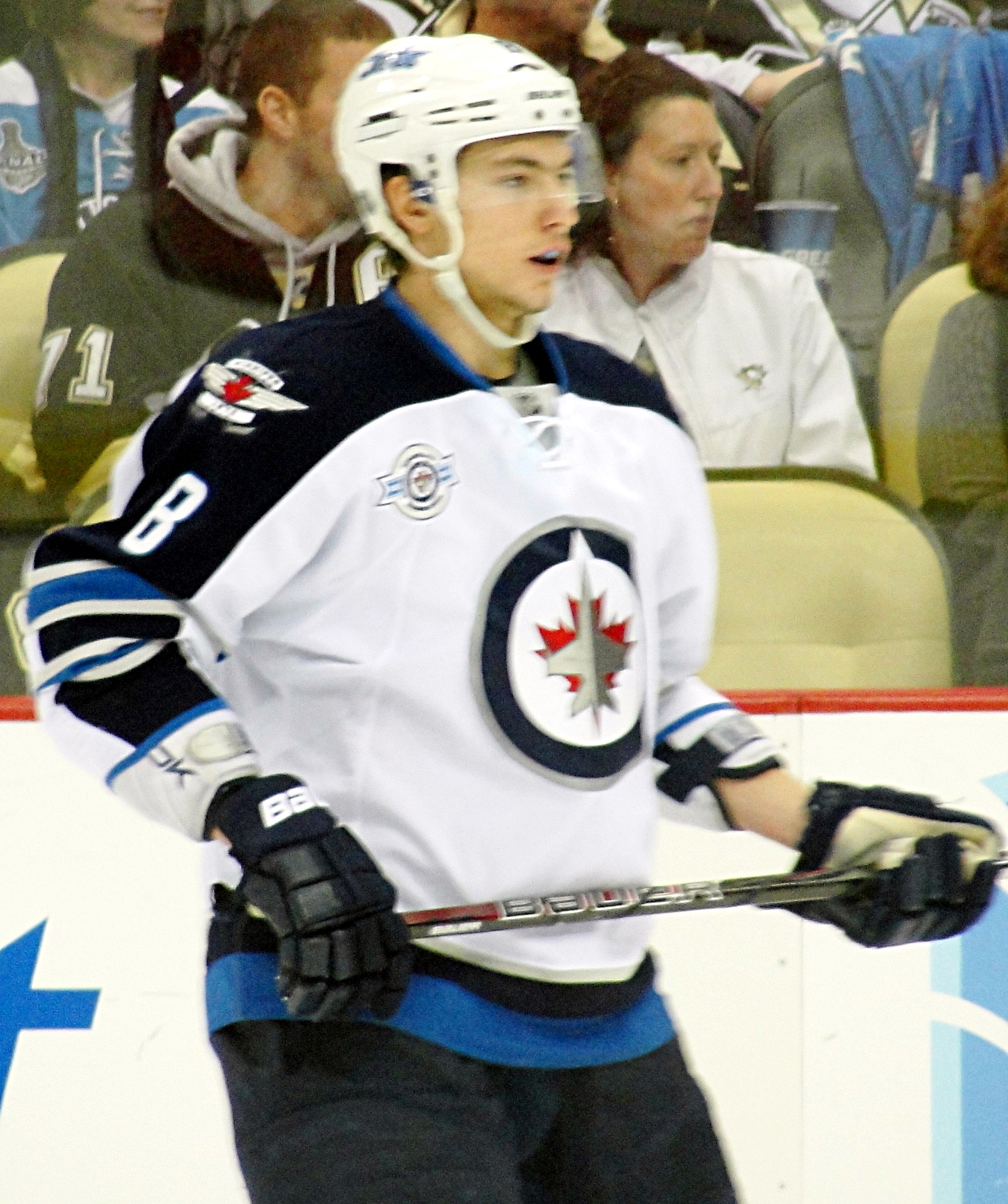 Alexander Burmistrov of the Winnepeg Jets during a game against the Pittsburgh Penguins, February 11, 2012 at Consol Energy Center in Pittsburgh, PA.